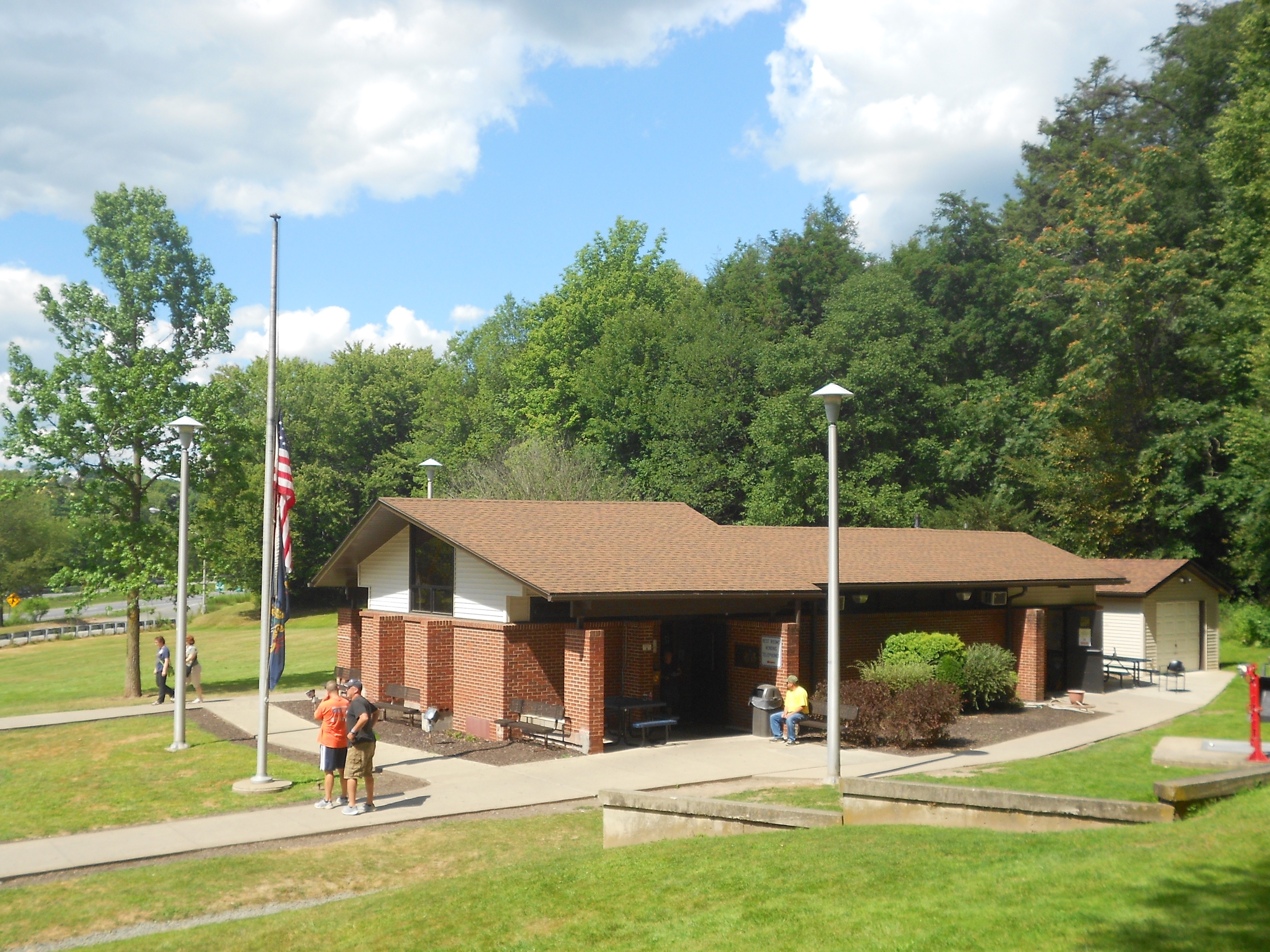 Rest stop 55 on Interstate 81 (northbound, mile marker 202.5). Nothing fancy here just restrooms, vending, picnic tables. Near Tomkinsville, Pennsylvania